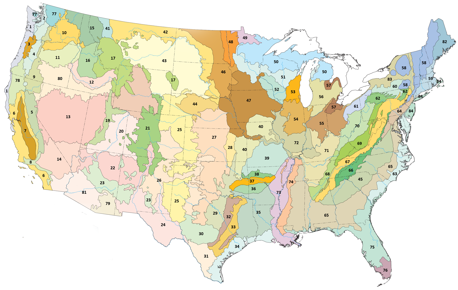 Level III ecoregions in the United States, as defined by the U.S. Environmental Protection Agency